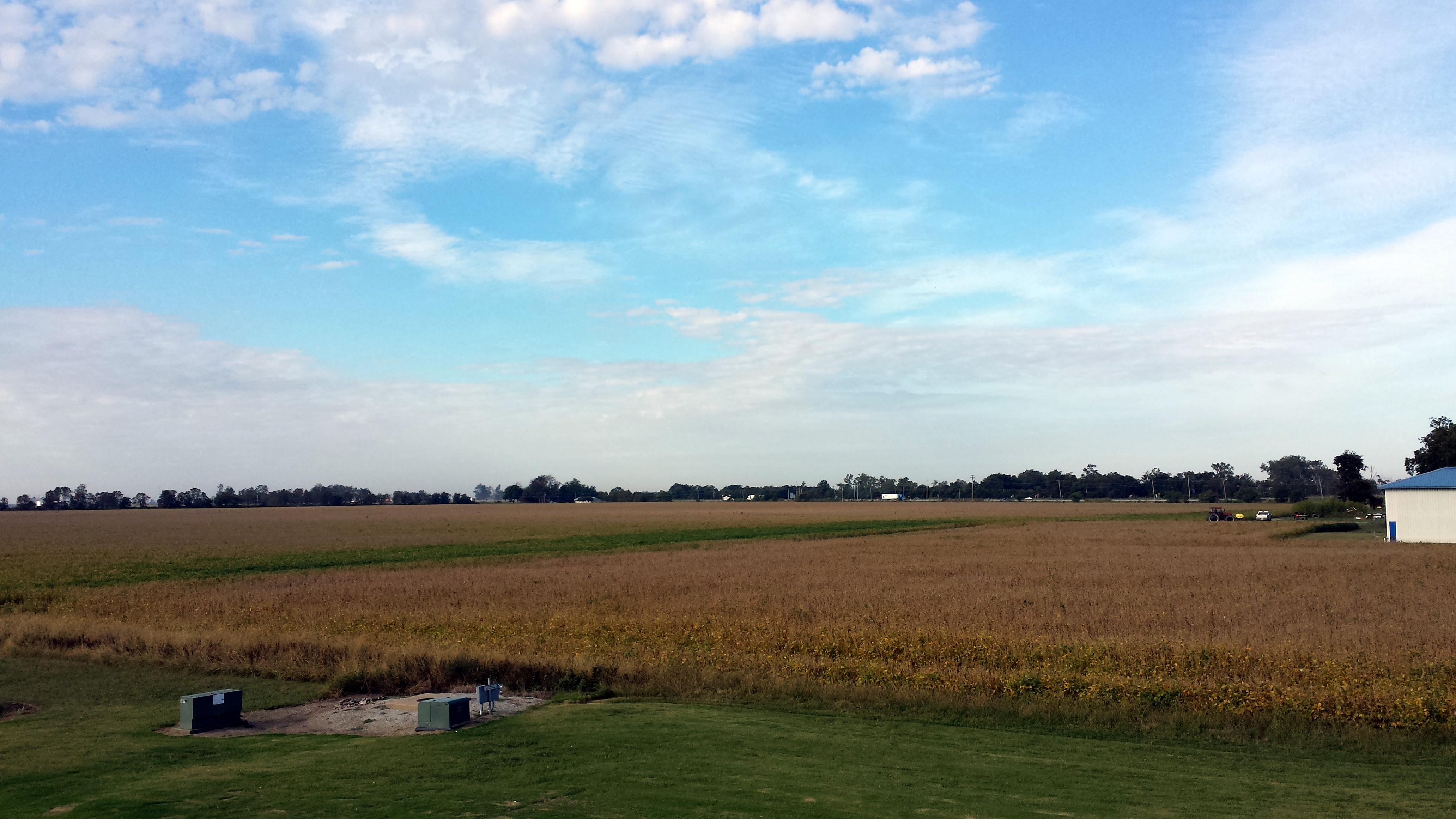 View of agricultural surroundings in Osceola, AR